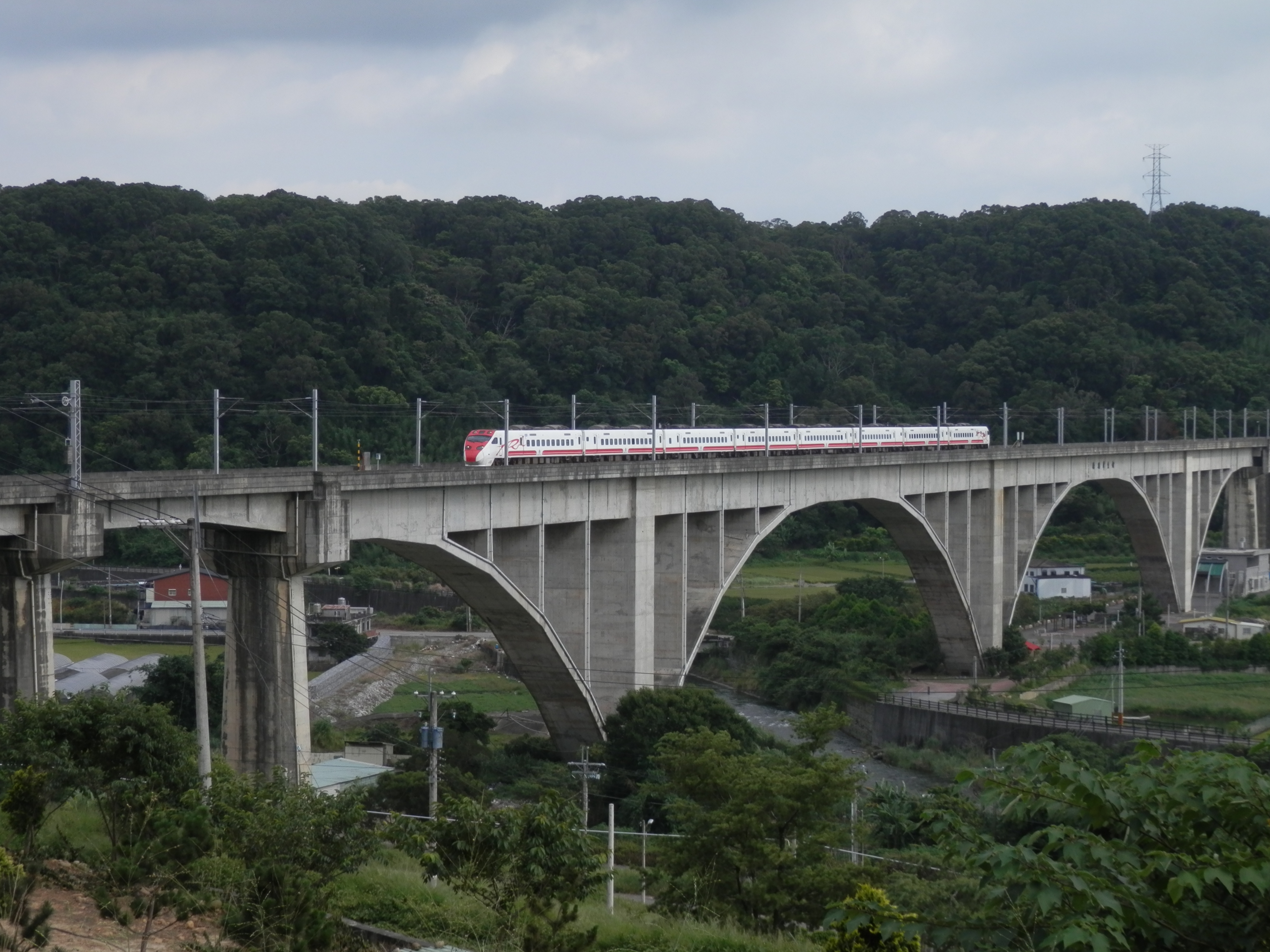 TRA Tze-Chiang Ltd-Exp Type EMU TEMU2000 at Trunk Line (Taichung Line) between Tai'an Station and Sanyi Station